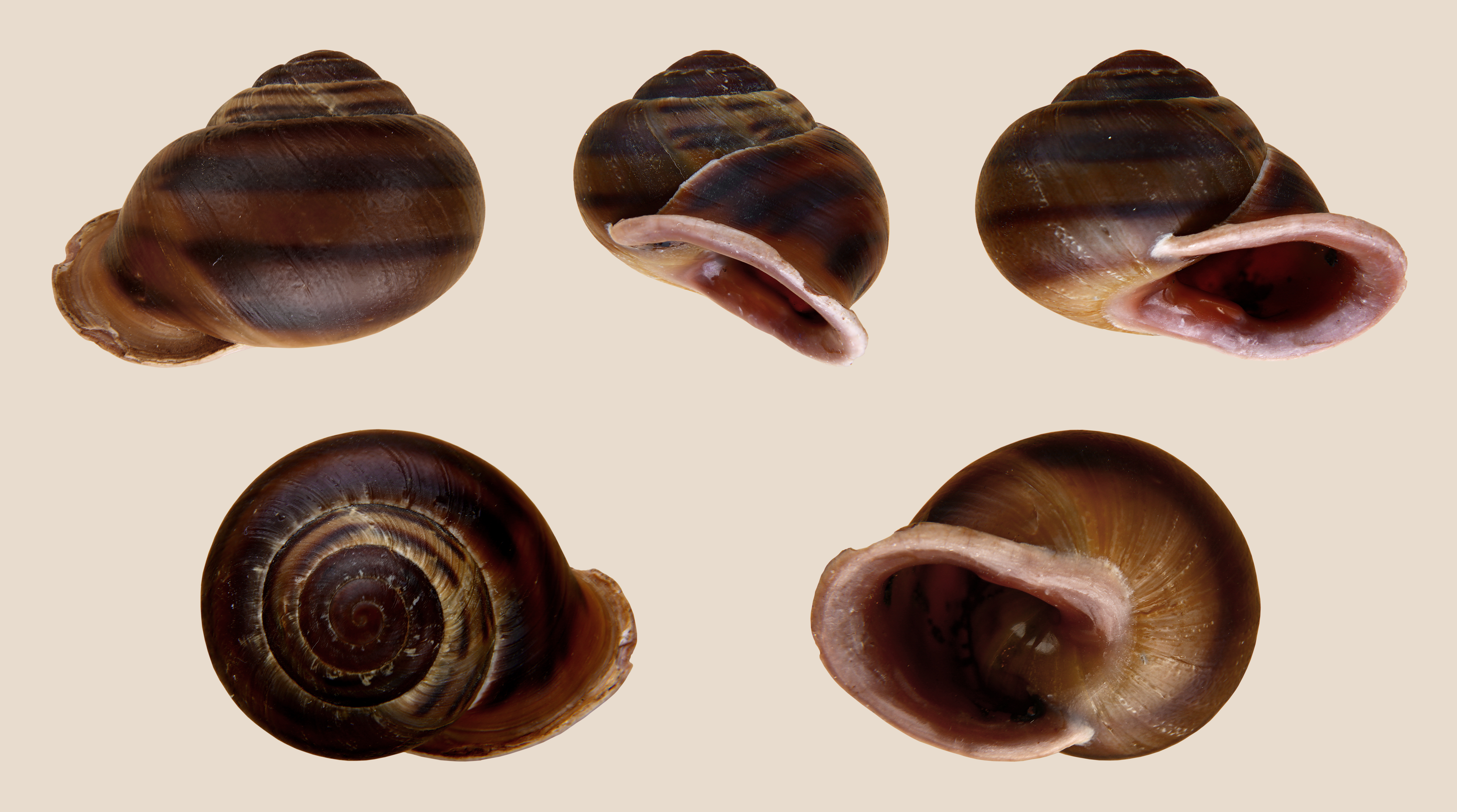 Diameter 2.9 cm; Originating from Guinate, Lanzarote, Canary Islands, Spain, 29°11′4.34″N 13°29′54.43″W / 29.1845389°N 13.4984528°W;Shell of own collection, therefore not geocoded..